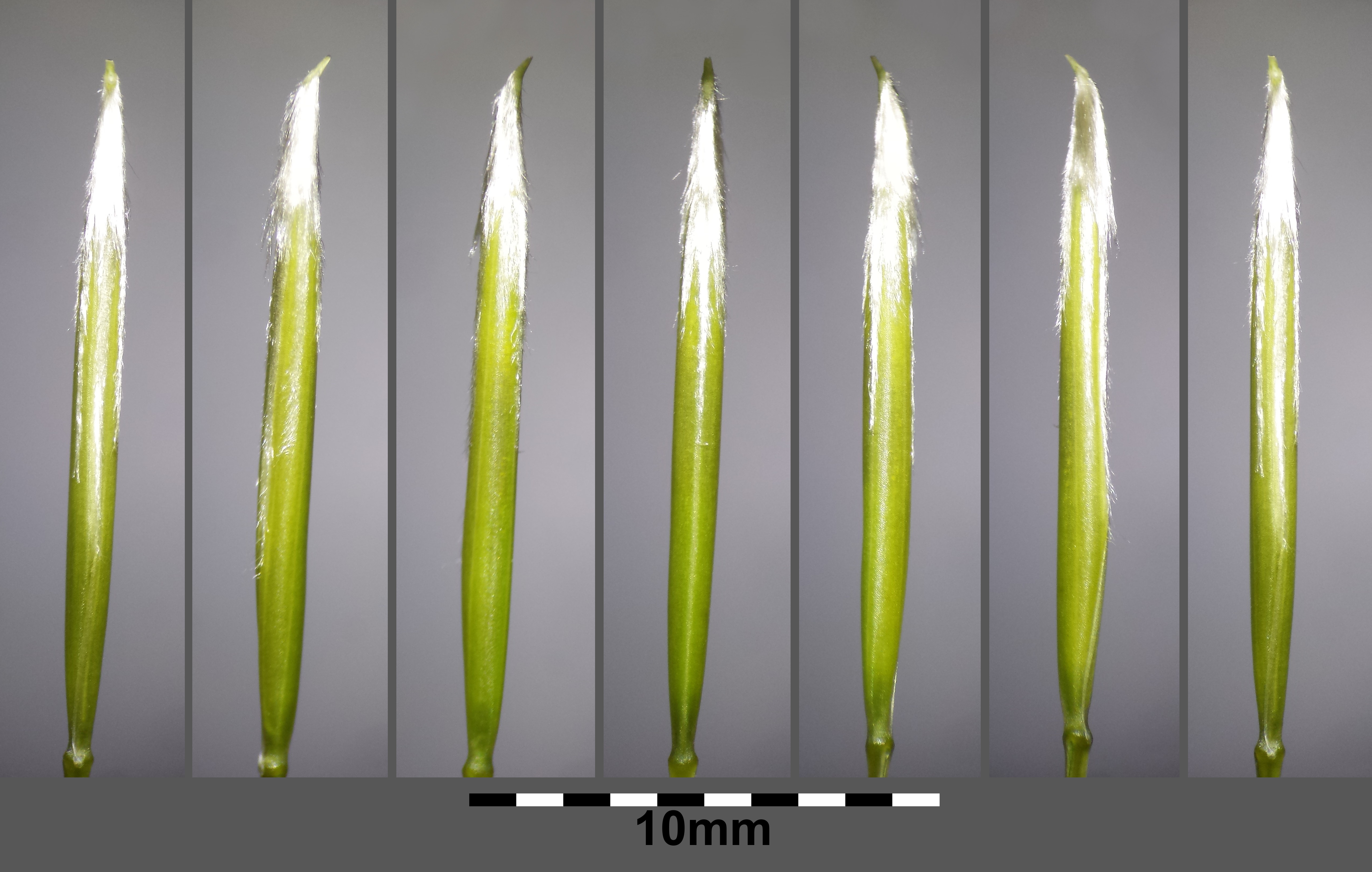 Lemma with lines of hairs Taxonym: Stipa pennata ss. orig. ss Fischer et al. EfÖLS 2008 ISBN 978-3-85474-187-9 Location: Geißberg near Eggendorf im Thale, district Hollabrunn, Lower Austria - ca. 300 m a.s.l. Habitat: semi-dry grassland